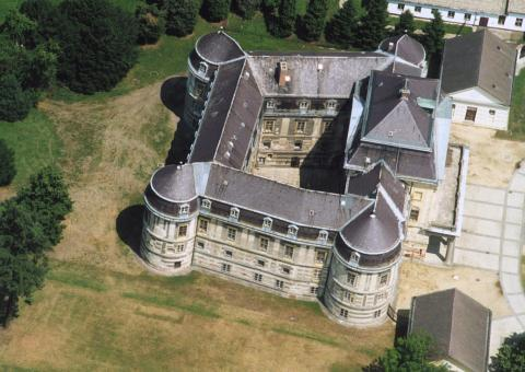 Körmend - castle, Hungary, aerialphotography